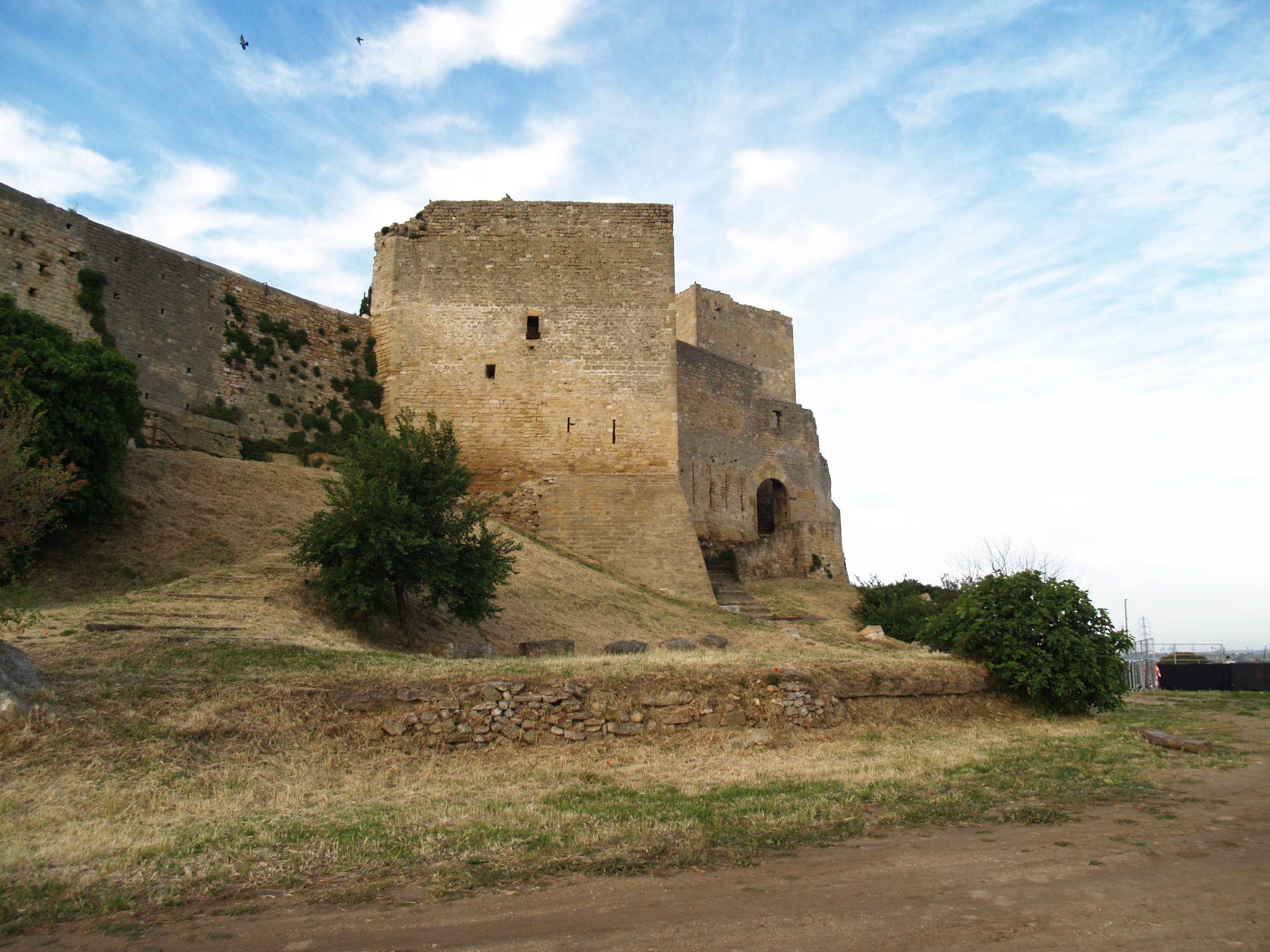 View of Fos sur Mer (France)